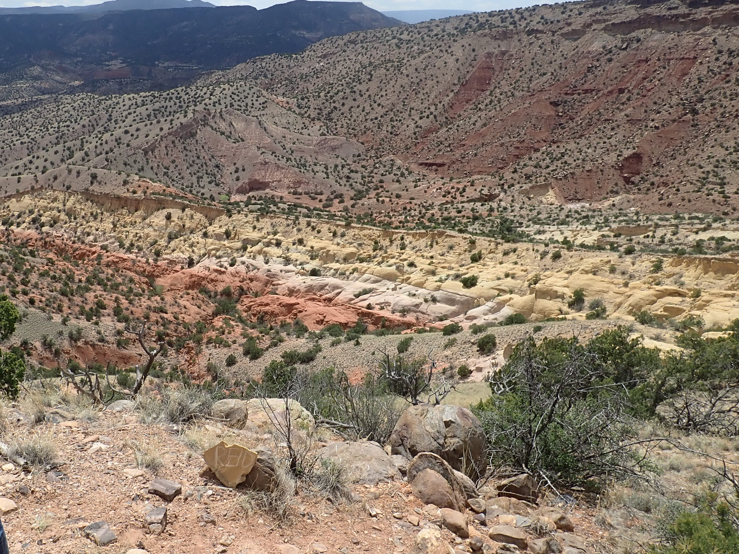 This image shows colorful beds of the Entrada Sandstone near Red Wash Canyon, west of Abiquiu, New Mexico, USA. The beds are capped by thin grey beds of the Todilto Formation. The escarpment in the background is underlain by much older Permian beds of the Arroyo del Agua Formation, with the Canones Fault at the base of the escarpment. The Canones Fault marks the southeastern boundary of the Colorado Plateau with the Rio Grande rift in this area.